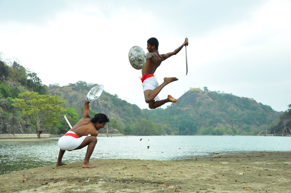 Illangam fighting scene with swords and shields at korathota angampora tradition